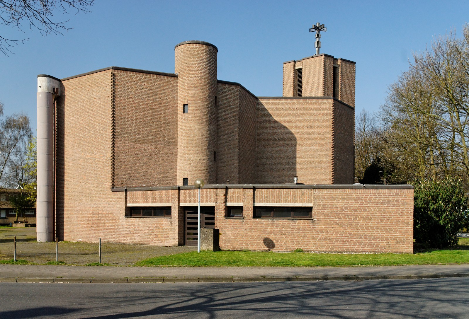 Saint Laurentius in Duesseldorf-Holthausen, Germany